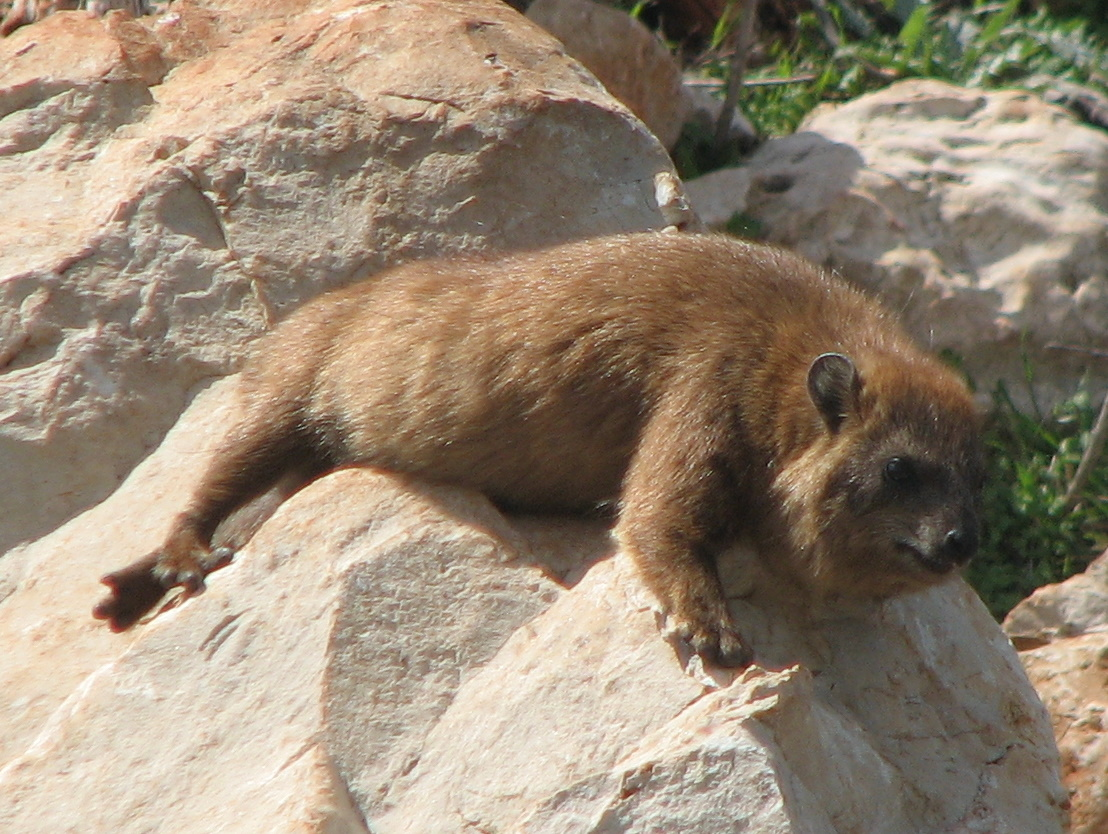 A rock hyrax basking in the sun